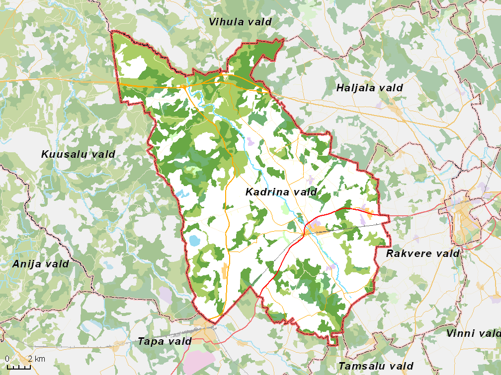 Map of municipality in Estonia